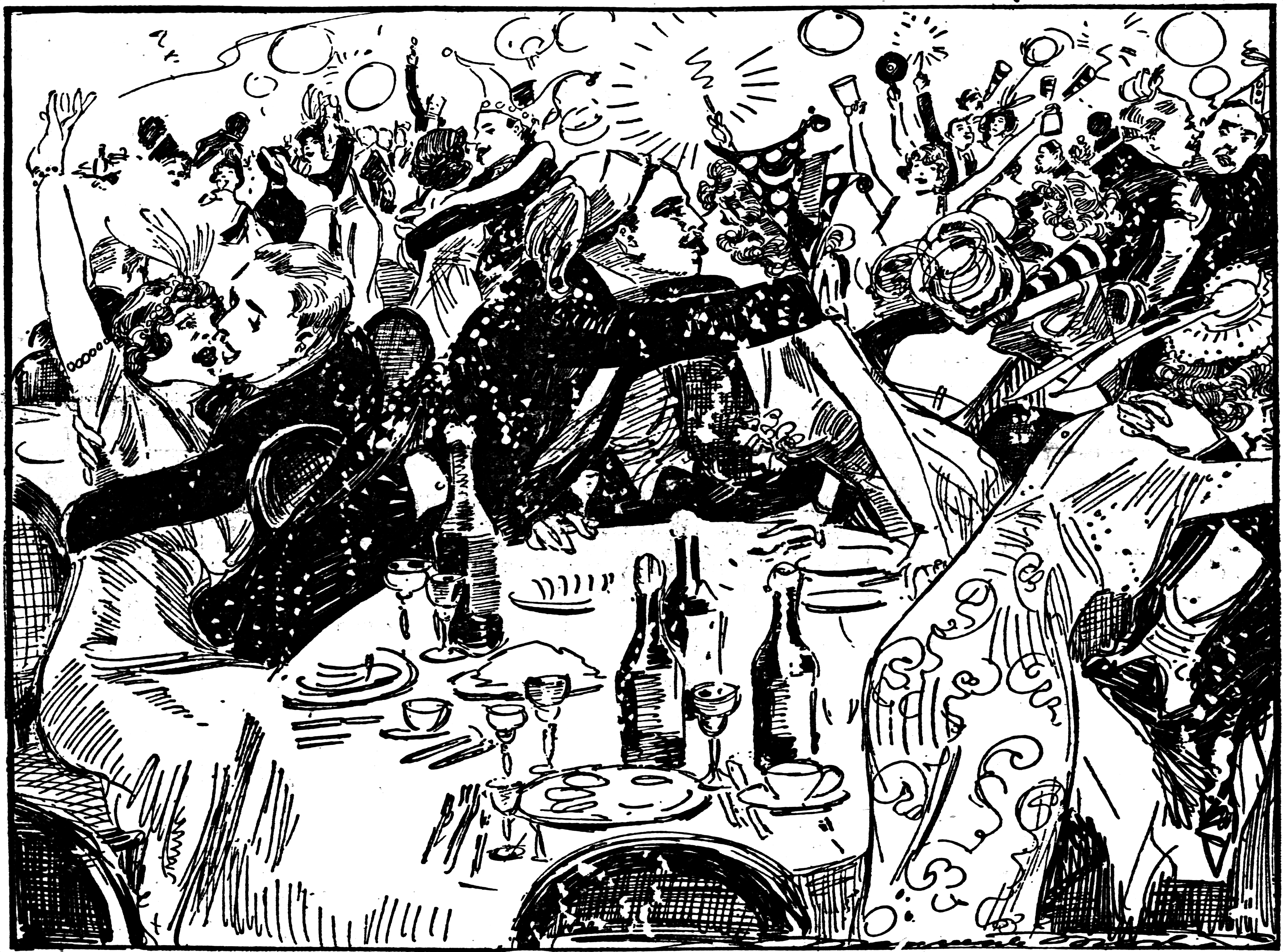 Fanciful sketch by journalist Marguerite Marty of a New Year's Eve celebration.